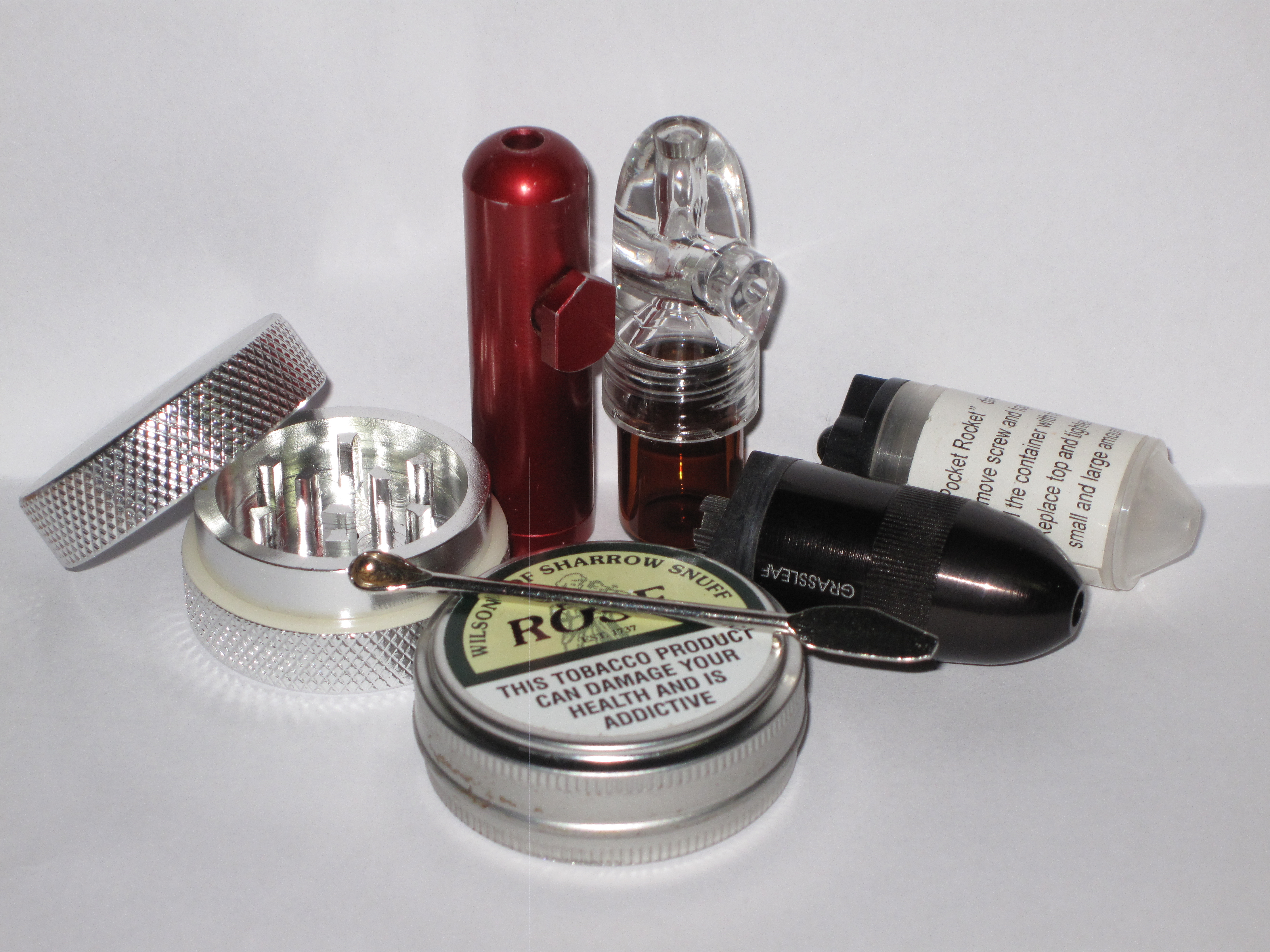 An image of several snuff accessories. From far left clockwise: Snuff (herb) grinder Metal snuff bullet Plastic and glass snuff bullet Variable dose metal snuff bullet Variable dose plastic snuff bullet Snuff spoon Tin of snuff